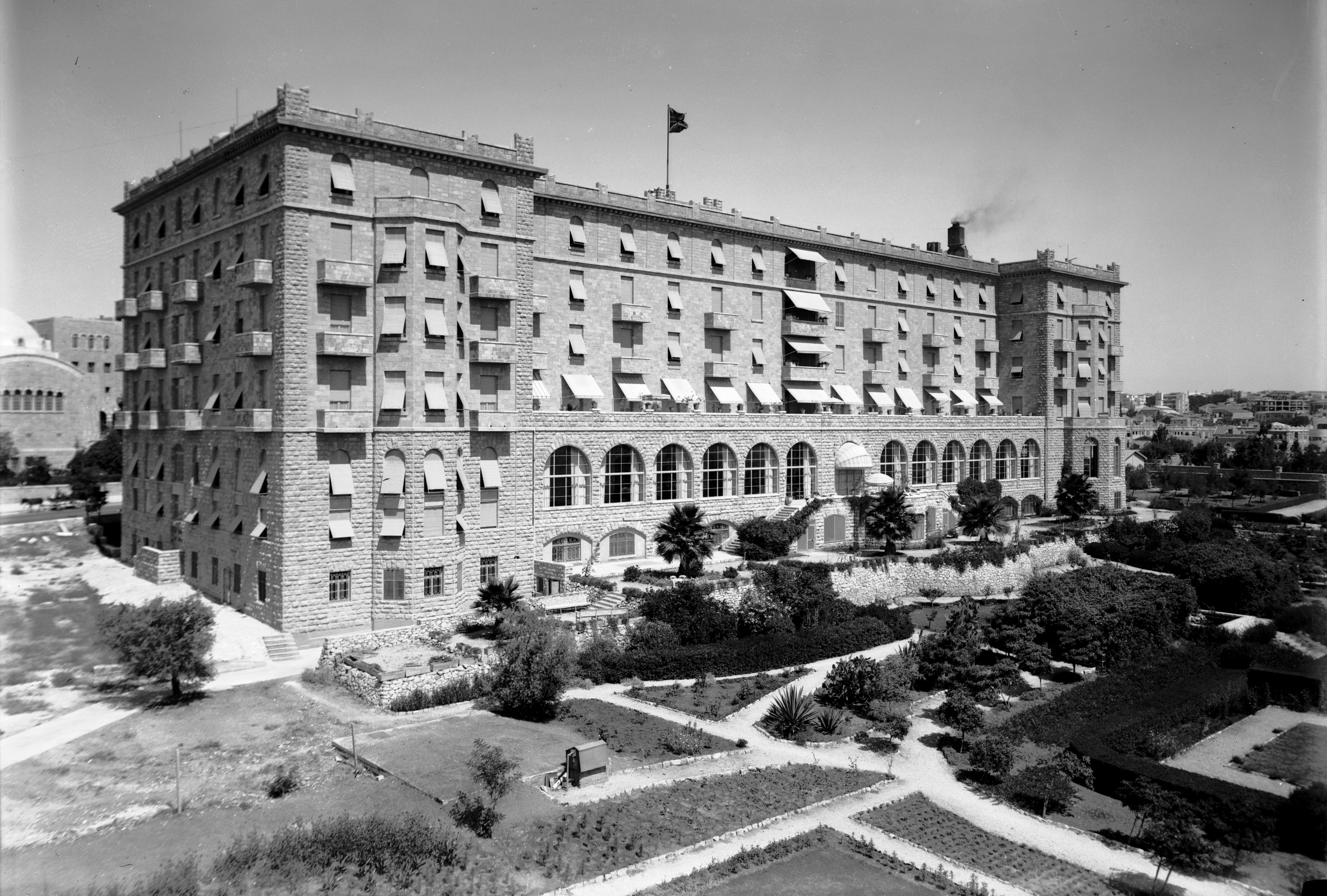 King David Hotel from garden side. The east side of King David Hotel.